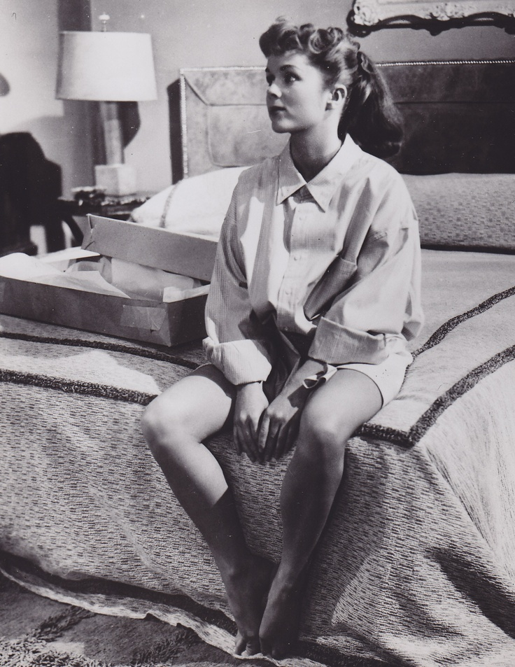 Publicity photo of Debbie Reynolds for the 1954 film Susan Slept Here